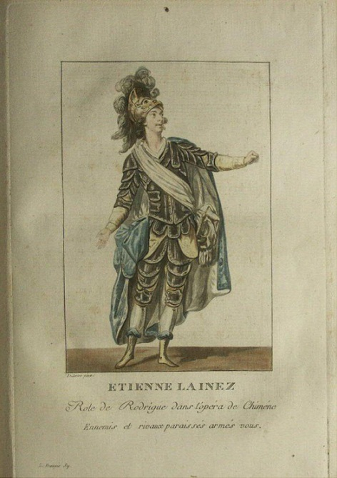 Étienne Lainez, leading tenor of the Paris Académie Royale de Musique, in the costume of Rodrigue, the male protagonist of the opera Chimène by Antonio Sacchini (premiere: Fontainebleau, 16 November 1783)